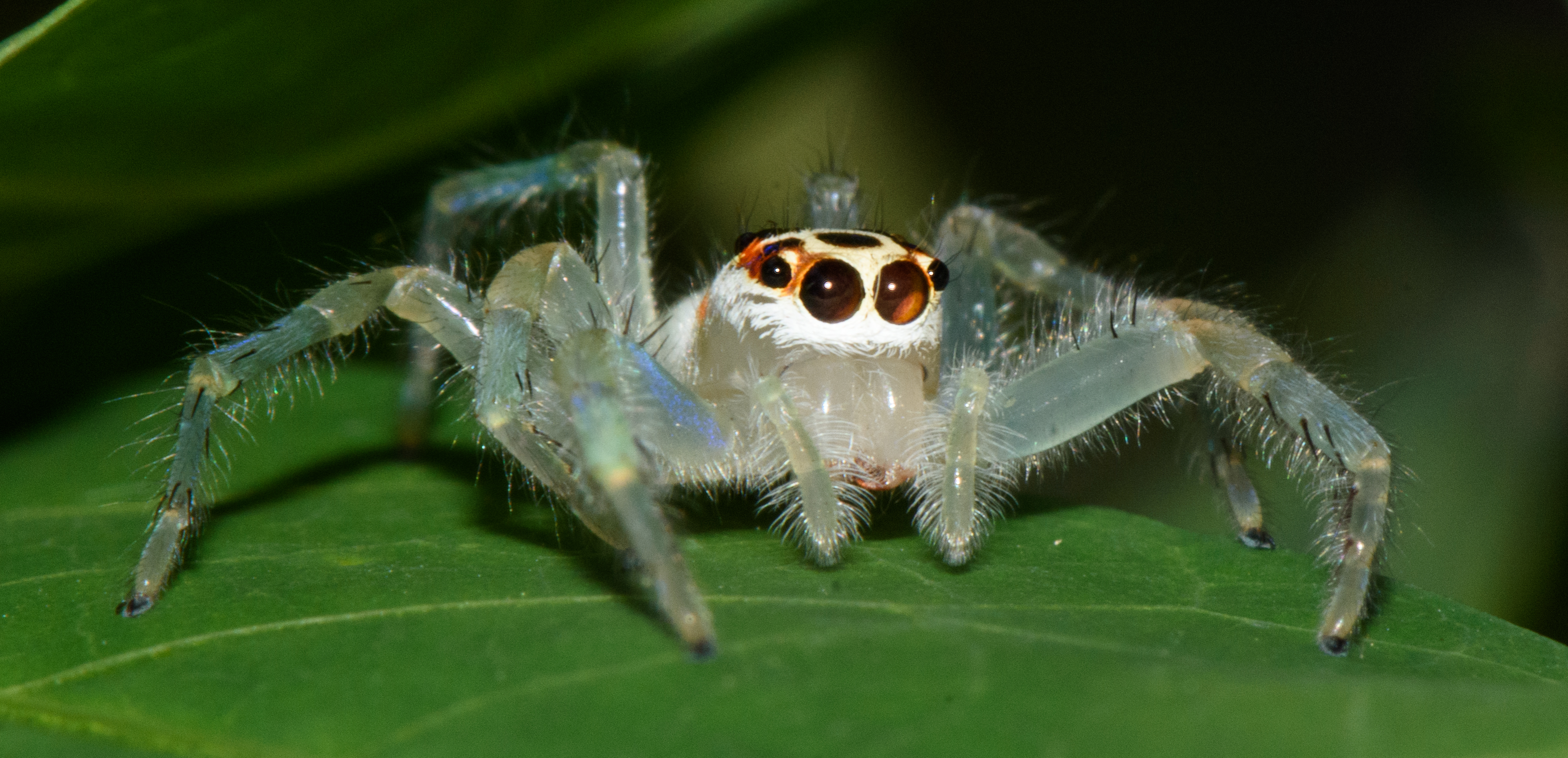 Telamonia dimidiata female from kottayam kerala